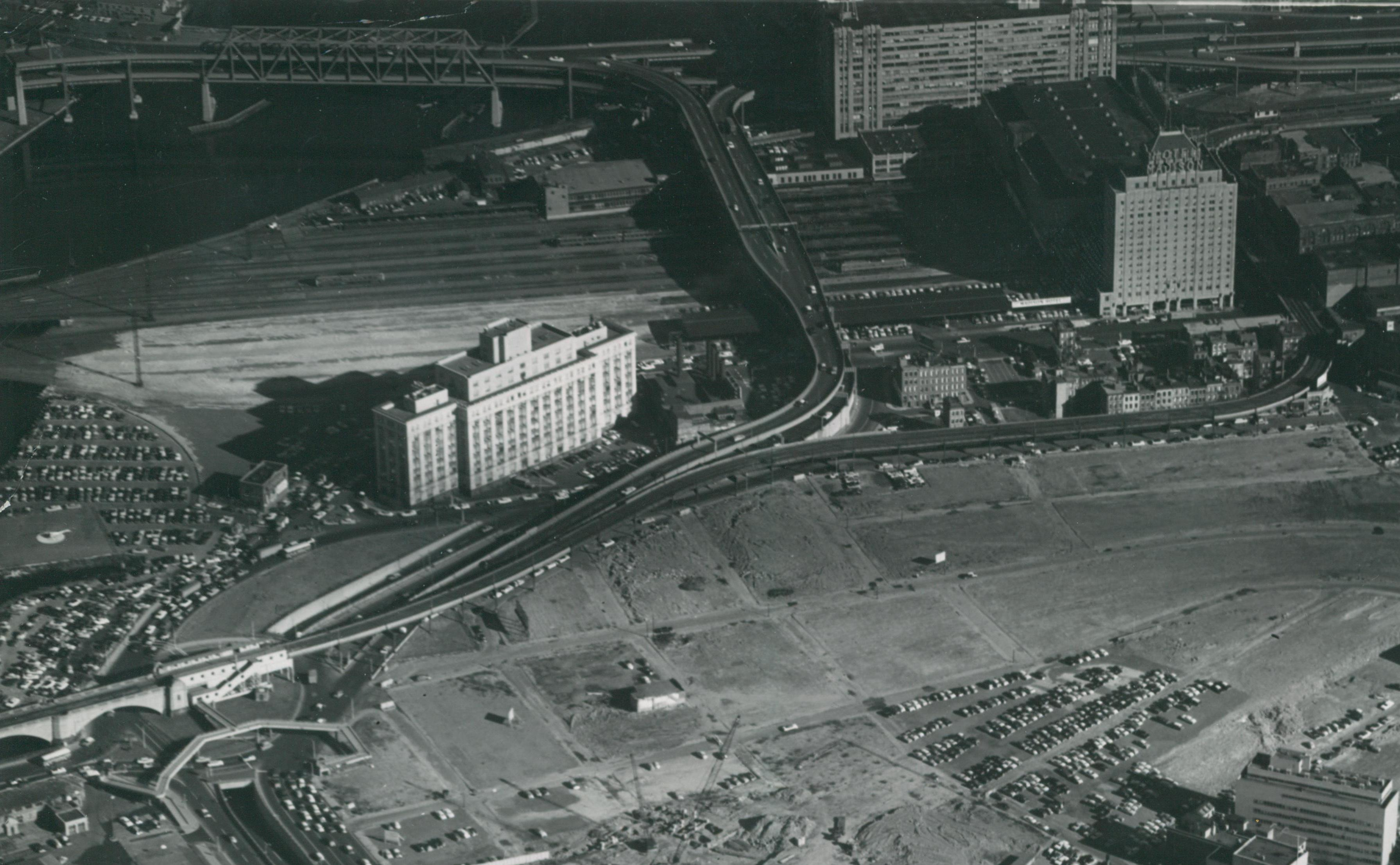 North Station and the West End redevelopment area